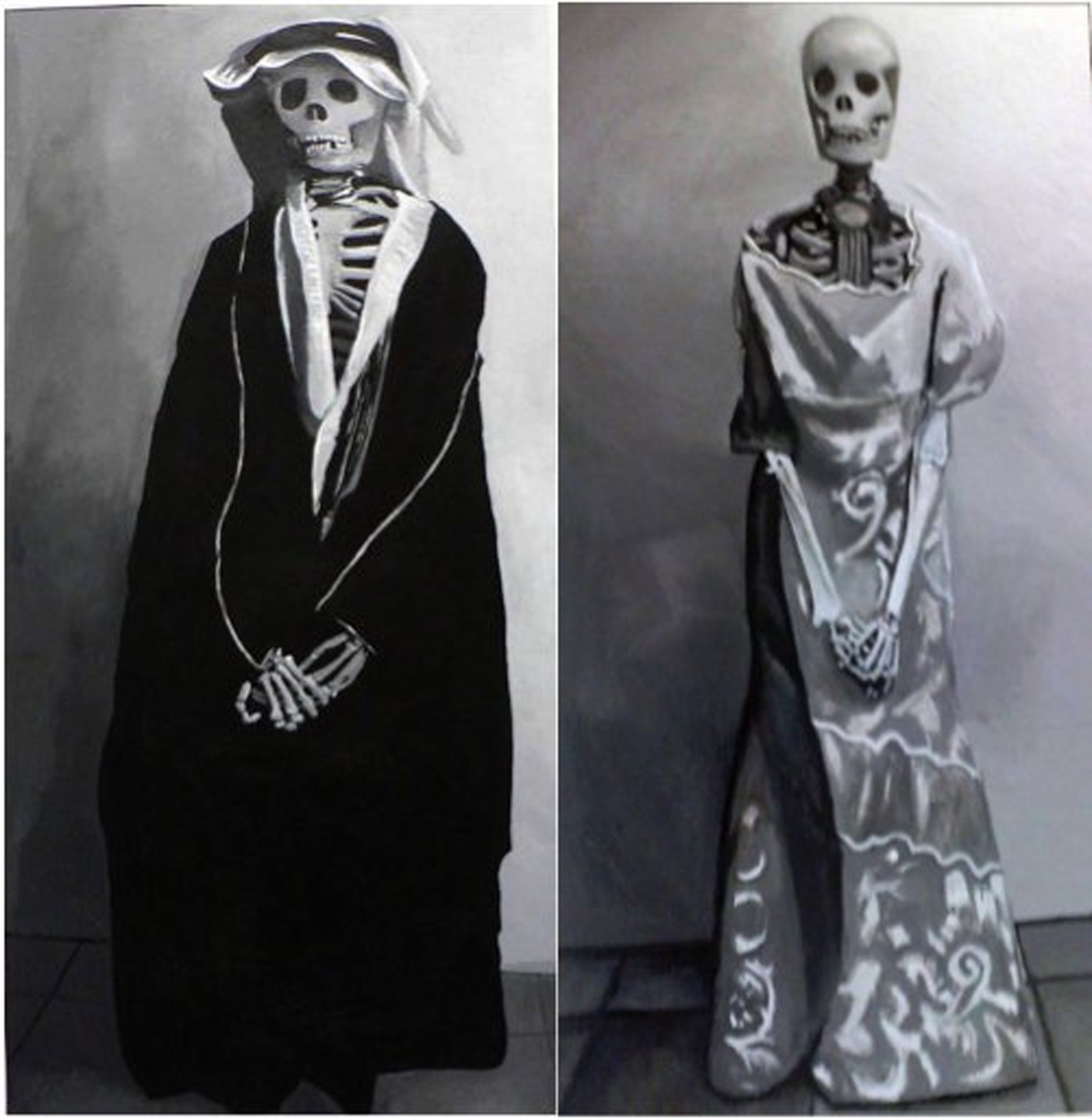 An acrylic on canvas painting created by Maisoon Al Saleh